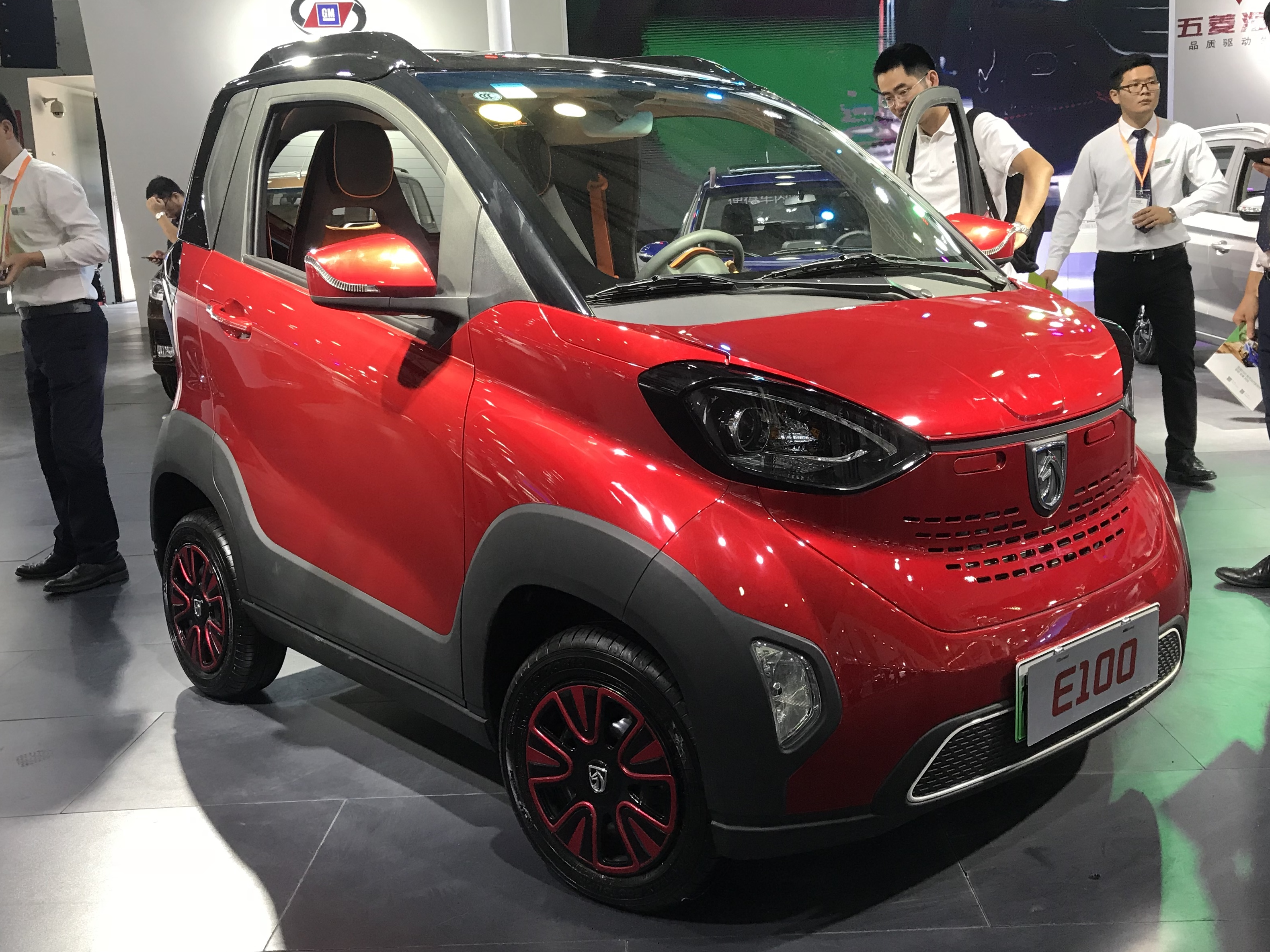 Baojun E100 front